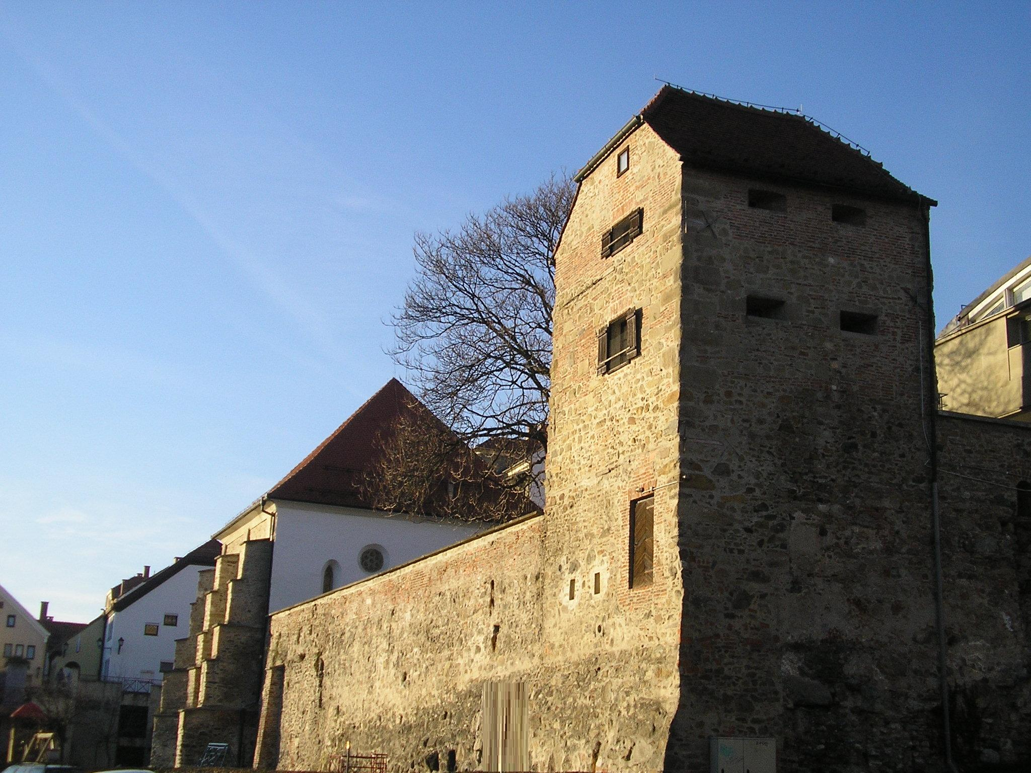 Jewish Tower in Maribor (in the right side) and the synagogue of Maribor in the left side behind of tower.